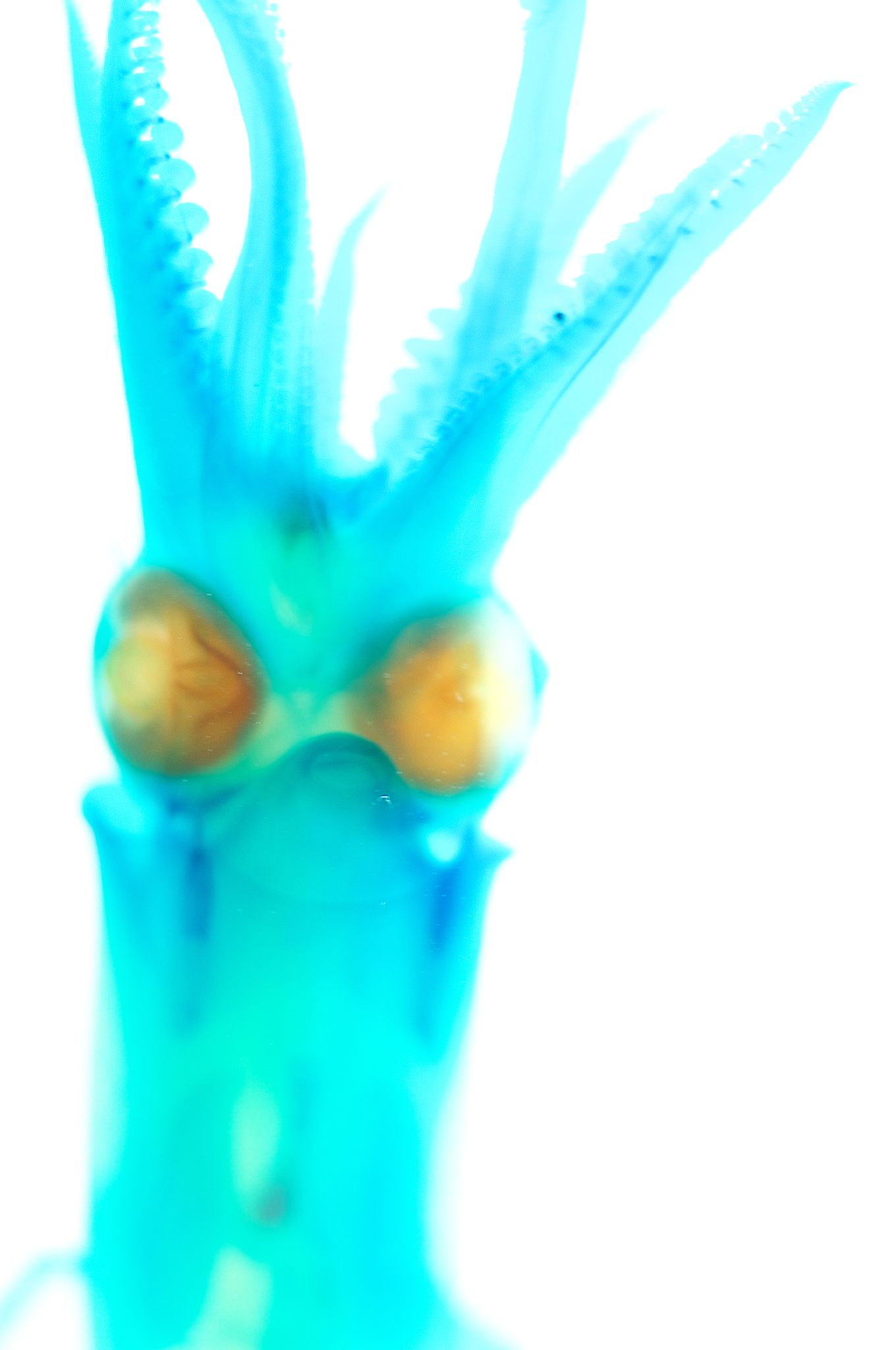 Transparent frame specimen (Loliolus (Nipponololigo) japonica)